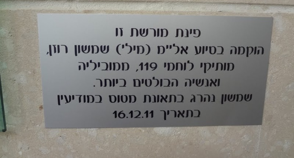 Shimshon Rozen memorial sign in 119 squadron at Ramon Air Force Base